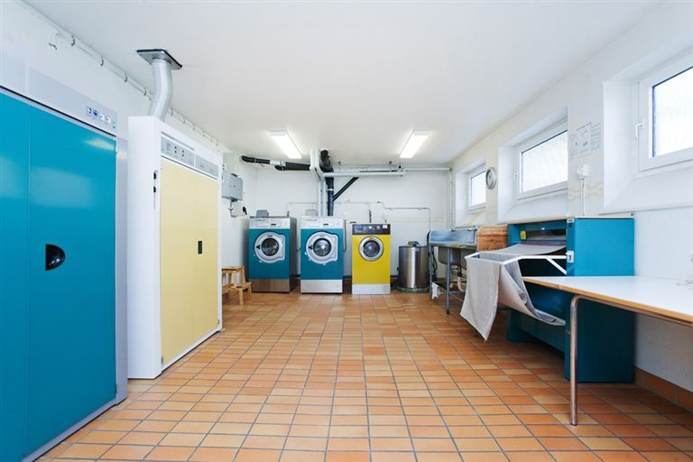 A laundry in an apartment building in Karlskrona, Sweden.